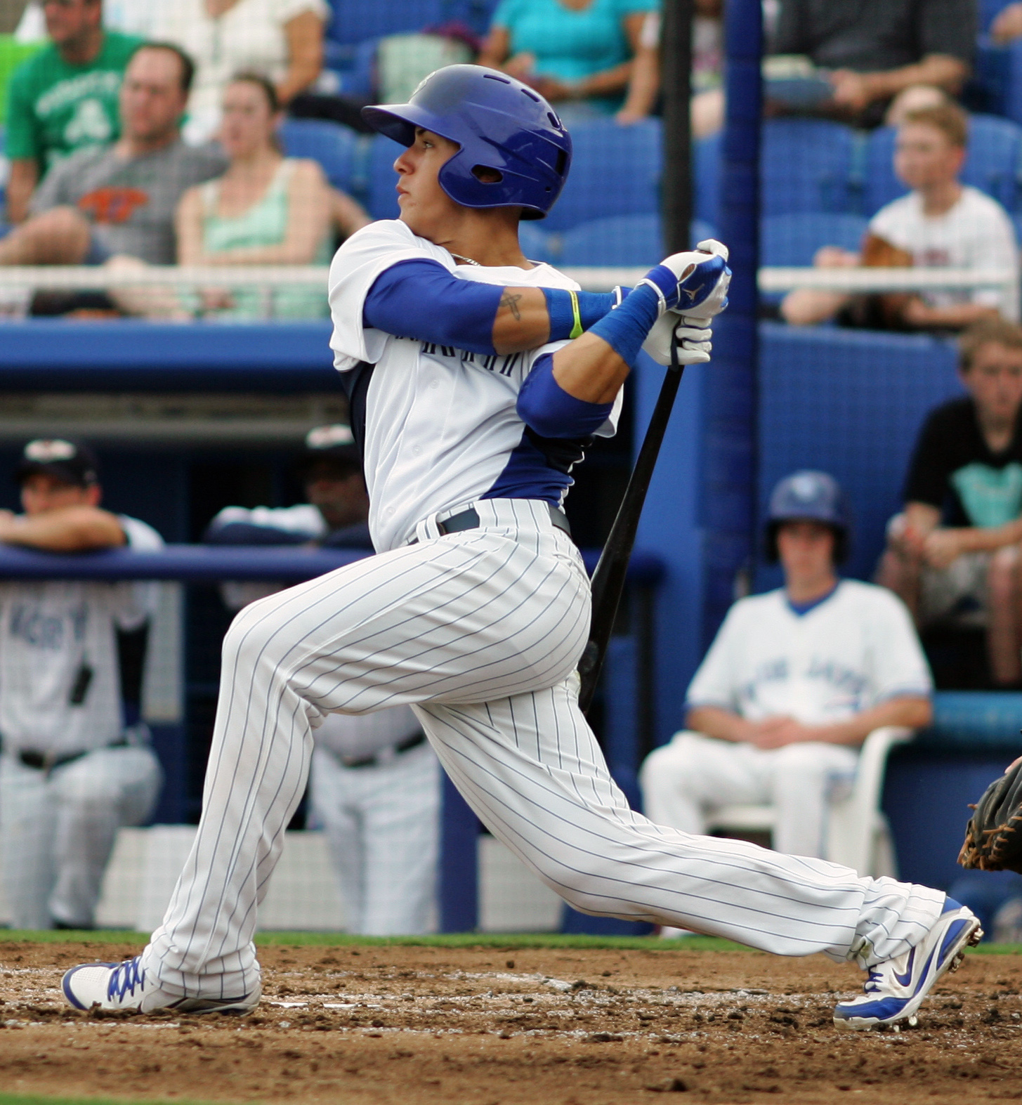 Javier Báez bats in the 2013 FSL All-Star Game.